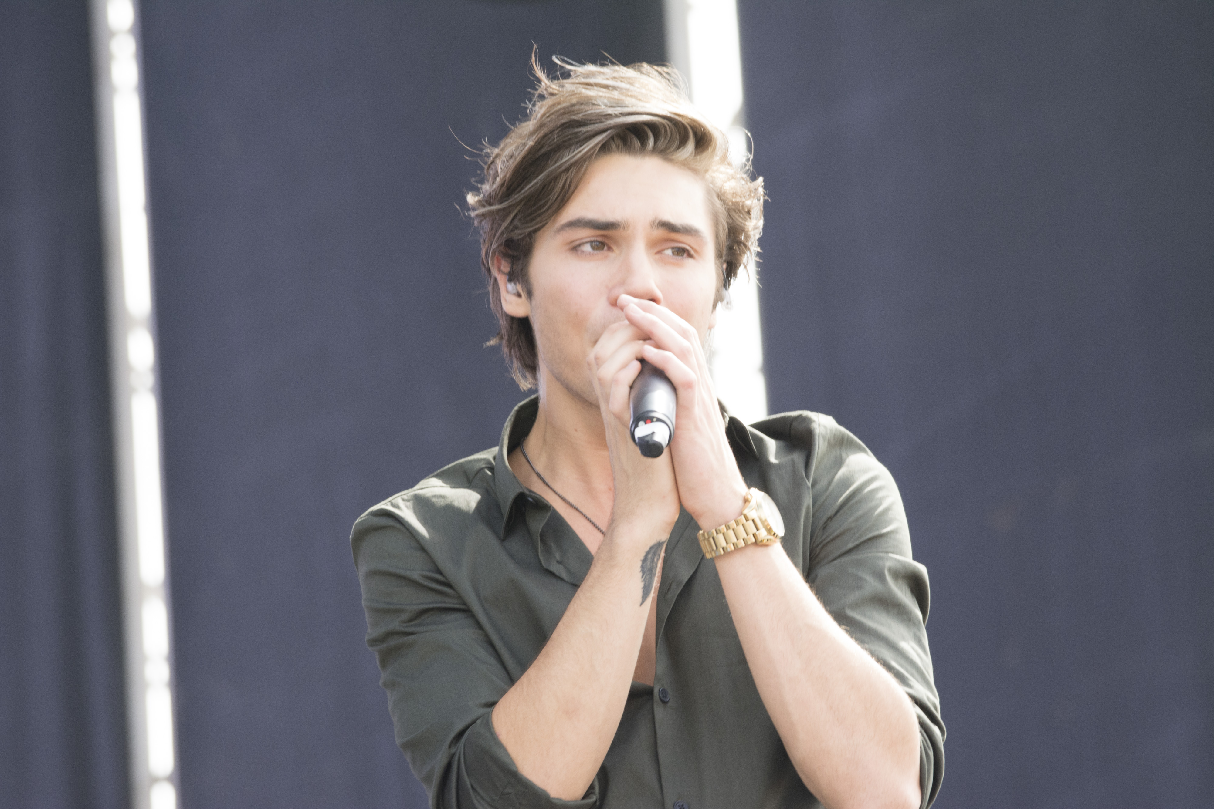 Gibraltar - 5th September 2015 - Union J at the Gibraltar Music Festival. The Gibraltar Music Festival started today at the Victoria Stadium with 3 main stages providing international and local acts to a capacity crowd. Among the line -up today were Little Mix, Union J, Tom Odell, Paloma Faith, Duran Duran, Hudson Taylor, The Feeling, Third World, Lawson and Spanish group Estopa. Local groups included Karma 13, After Hours with Tim Garcia, This Side UP, Guy Valarino, Midriff, Mo Anton, Angel Wings, Super Wookie, Coup d etat and Gibfloyd.